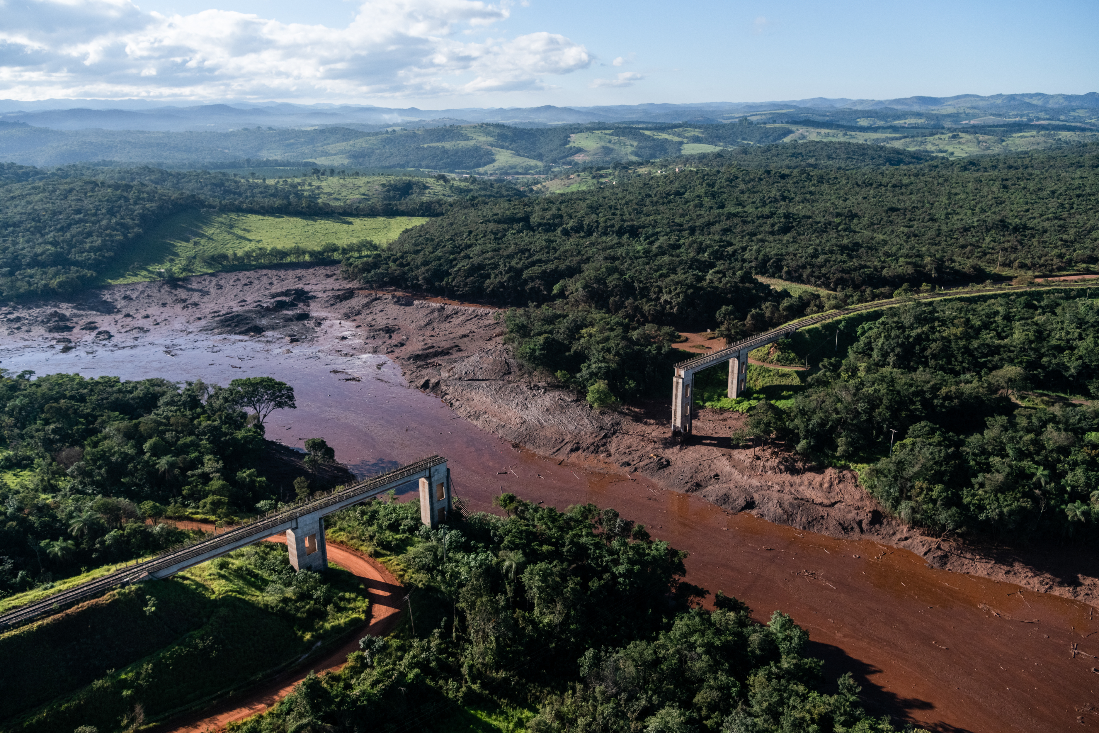 On Saturday, January 26th, 2019, the Brumadinho dam burst, vast areas were covered in mud and became submerged in water. The IDF dispatched a search and rescue delegation to help (more info).